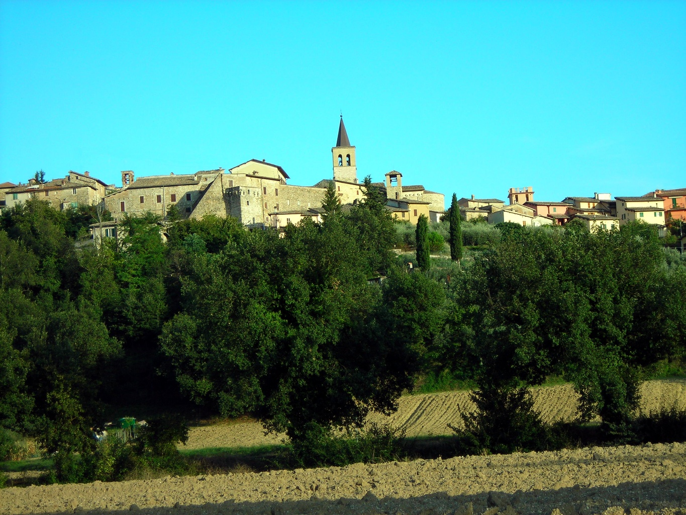 Castel Ritaldi, Perugia, Umbria, Italy